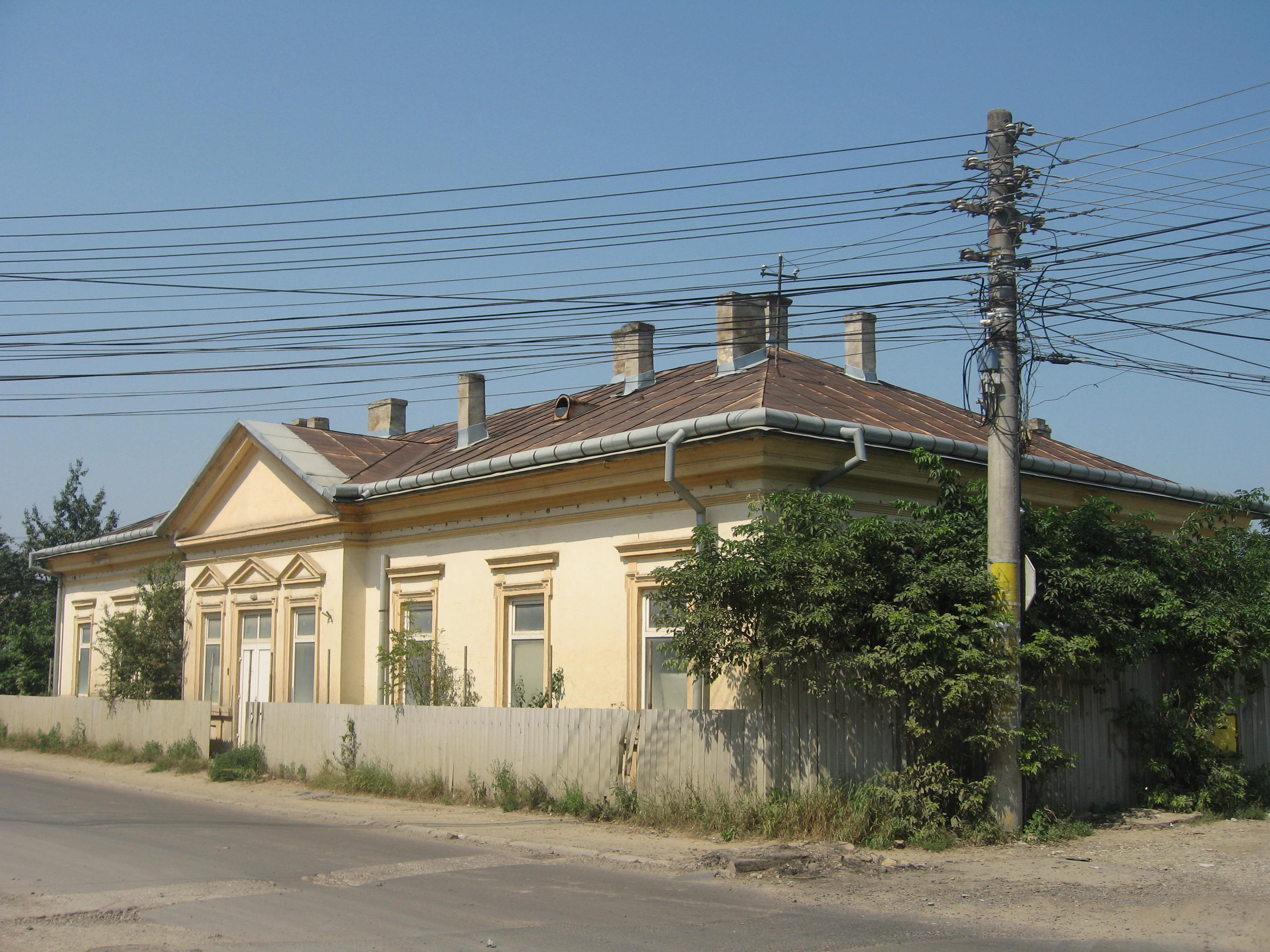 The border guard picket in Iţcani, Suceava.